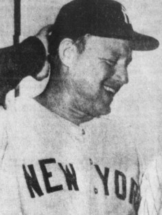 New York Yankees manager Ralph Houk and New York Mets manager Casey Stengel meet before an exhibition game in St. Petersburg, Florida in 1962.